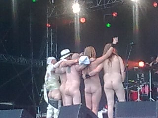 Kotiteollisuus band at Ruisrock 2010.